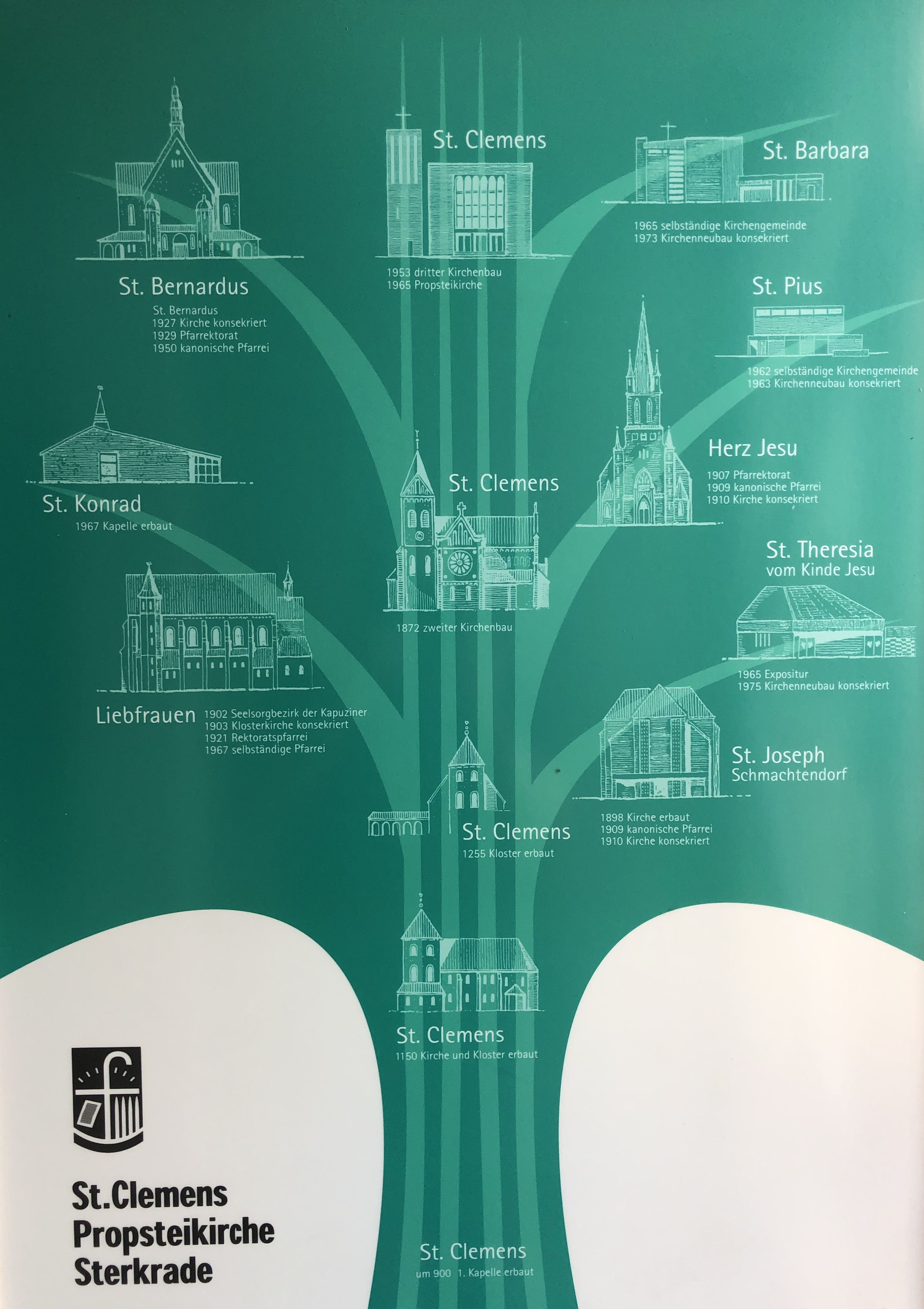 Family tree of the St. Clemens Parish Oberhausen-Sterkrade